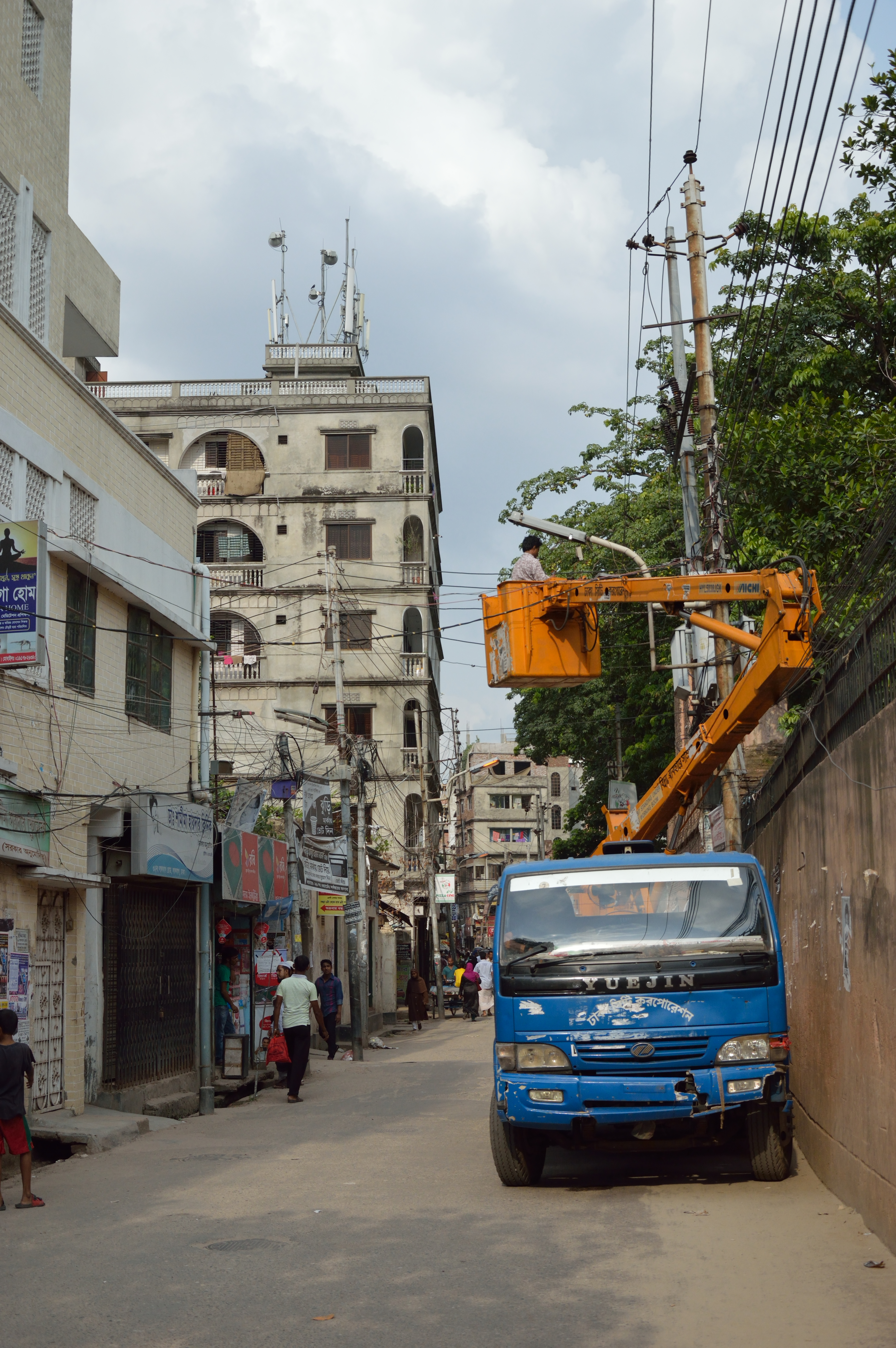 This photograph has been taken in Dhaka, Bangladesh.